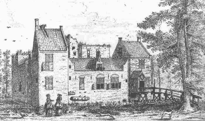 Engraving of the castle Berkenrode in Heemstede by Pieter Saenredam dated 1628. The castle was burned during the siege of Haarlem in the winter of 1573-74. Signed upper left P.Zaenredam fecit.